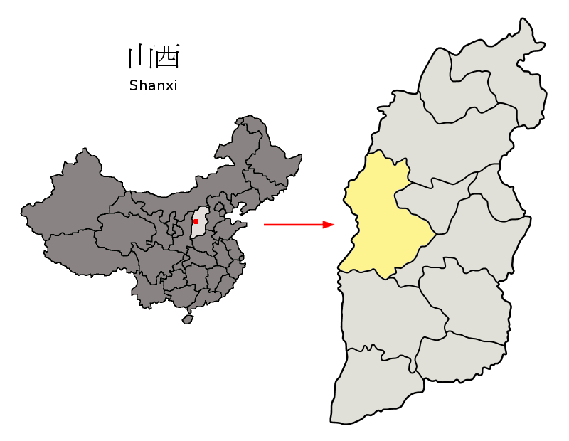 Location of Lüliang Prefecture (yellow) within Shanxi Province of China Map drawn in december 2007 using various sources, mainly : Shanxi Province administrative regions GIS data: 1:1M, County level, 1990 Shanxi Counties map from